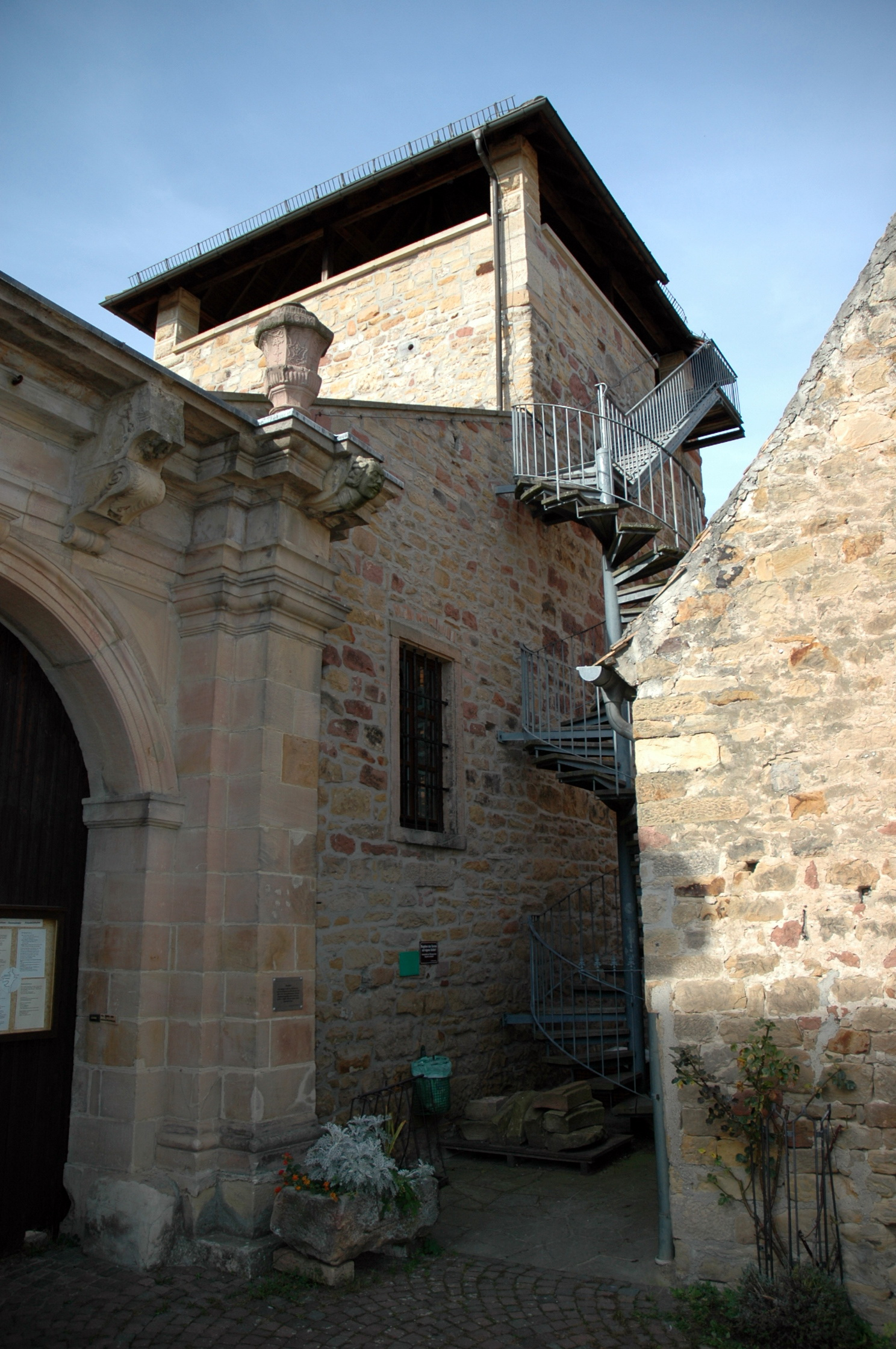 The keep of Castle Friedelsheim.